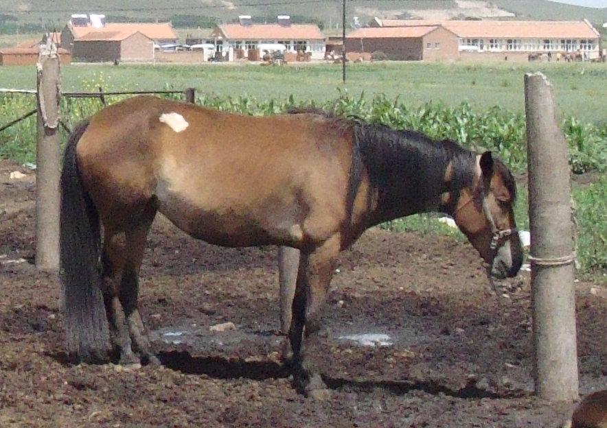 Horse in Inner Mongolia